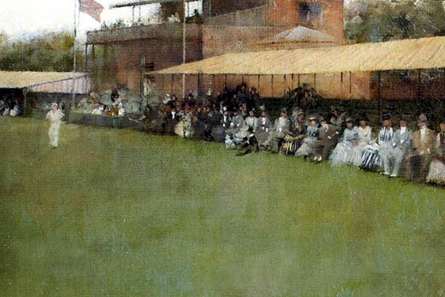 Eton Vs Harrow At Lords